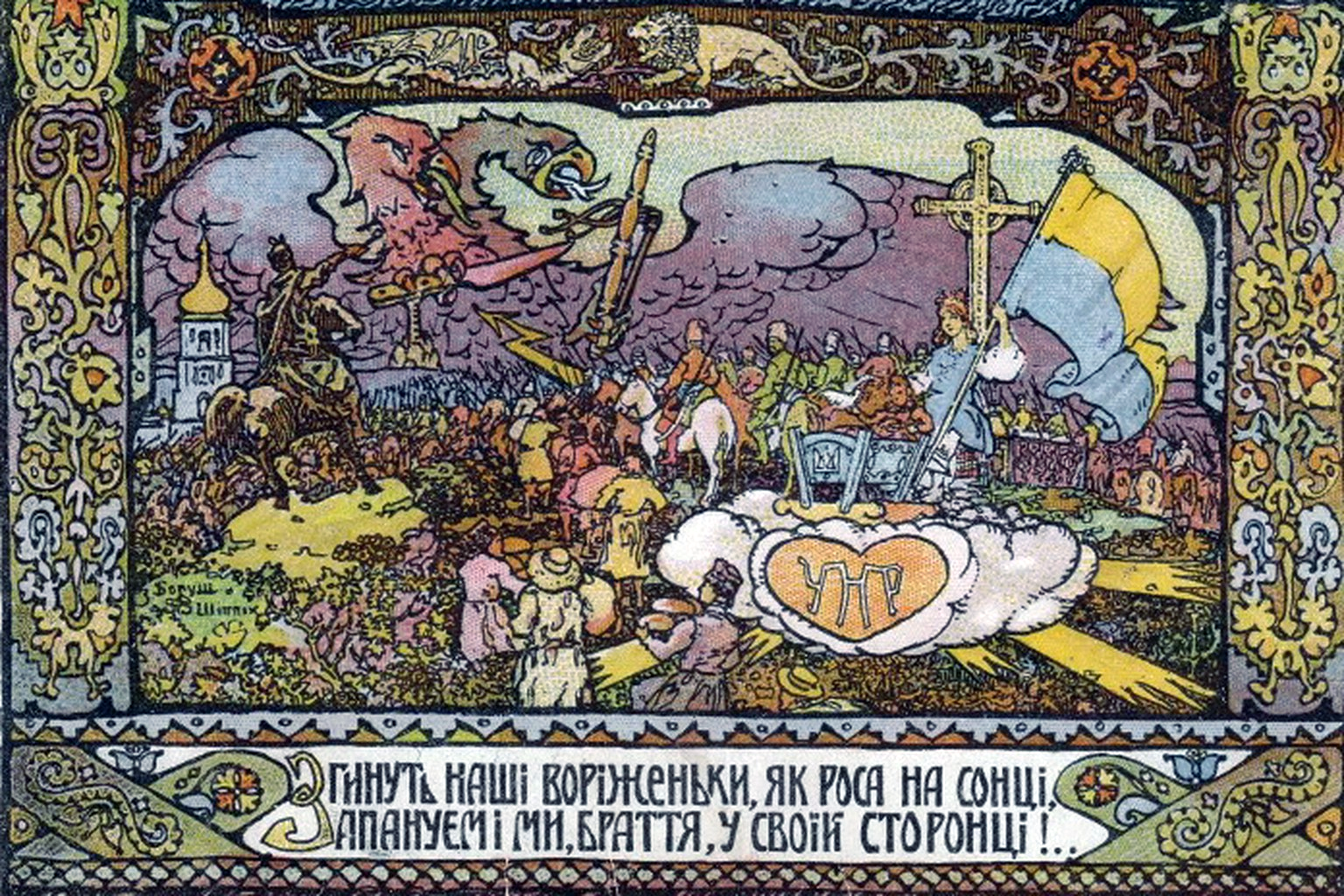 Color leaflet-poster by Bohush Shippikh, created after the announcement of the 3rd Universal (Declaration) of the Ukrainian People's Republic in late 1917. Published by the firm "Вернигора" in Kyiv.